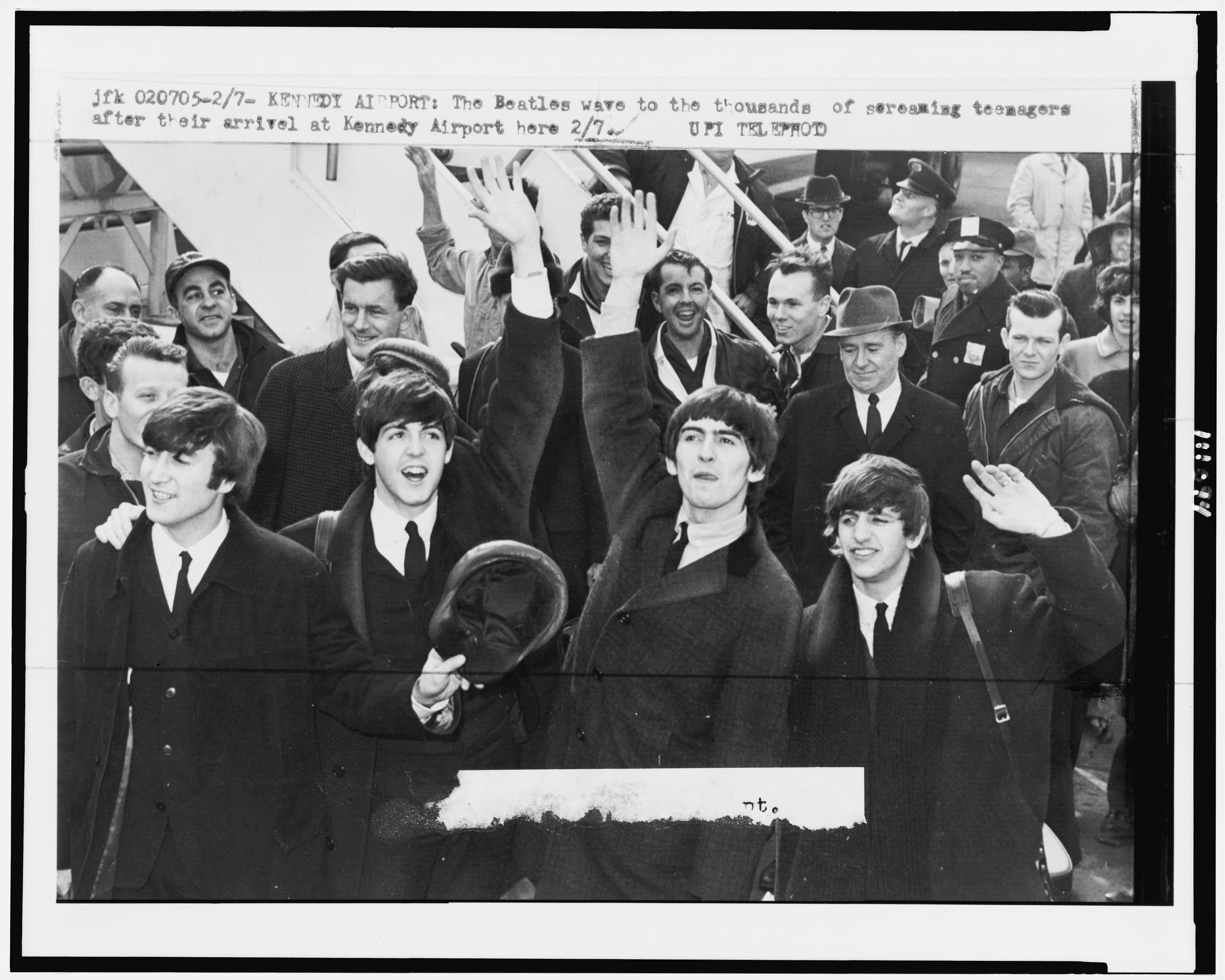 Photograph of The Beatles